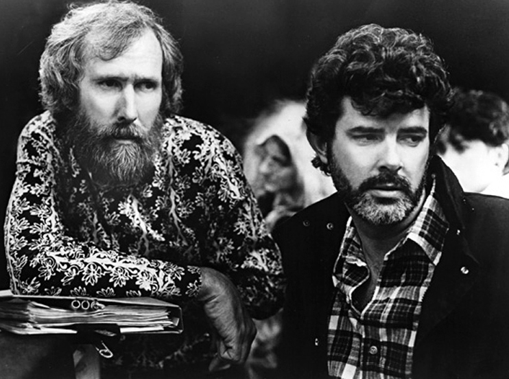 Photo of George Lucas and Jim Henson.